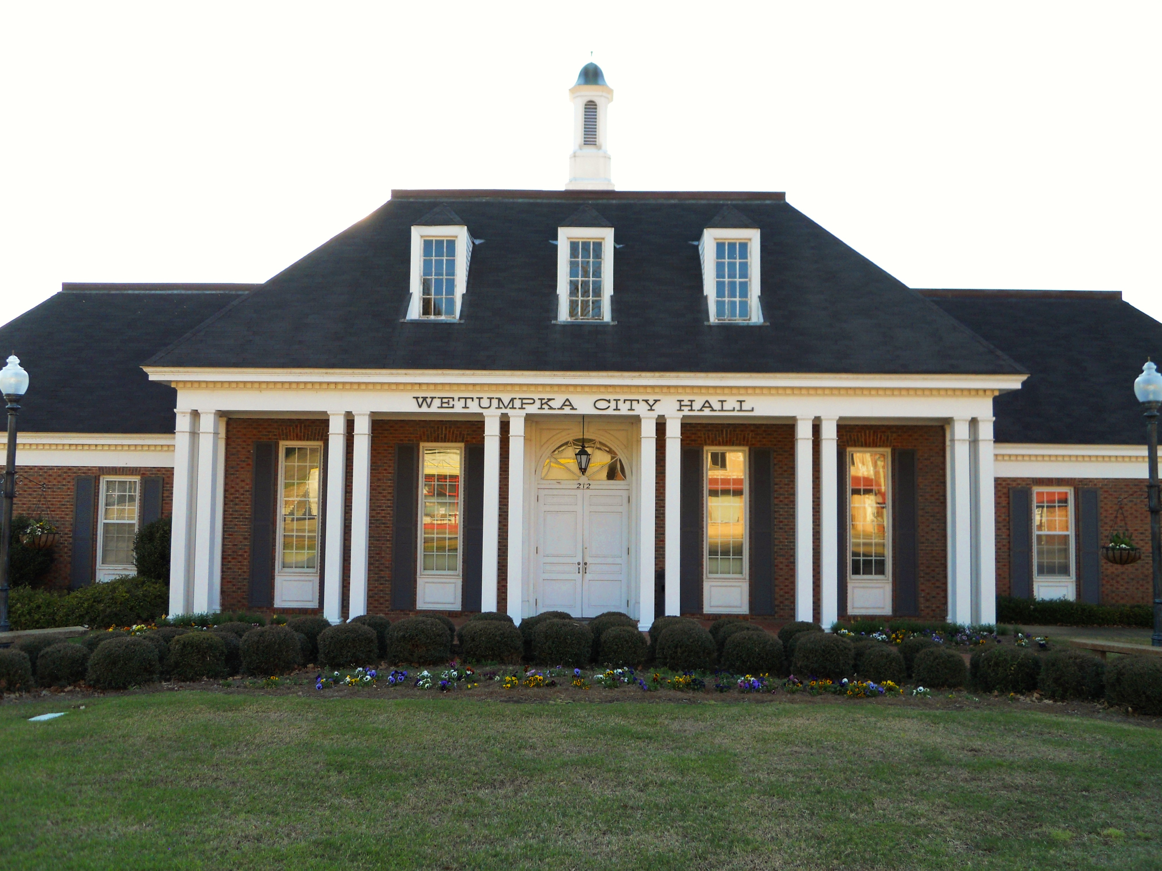 This is a photograph of Wetumpka City Hall in Wetumpka, Alabama.